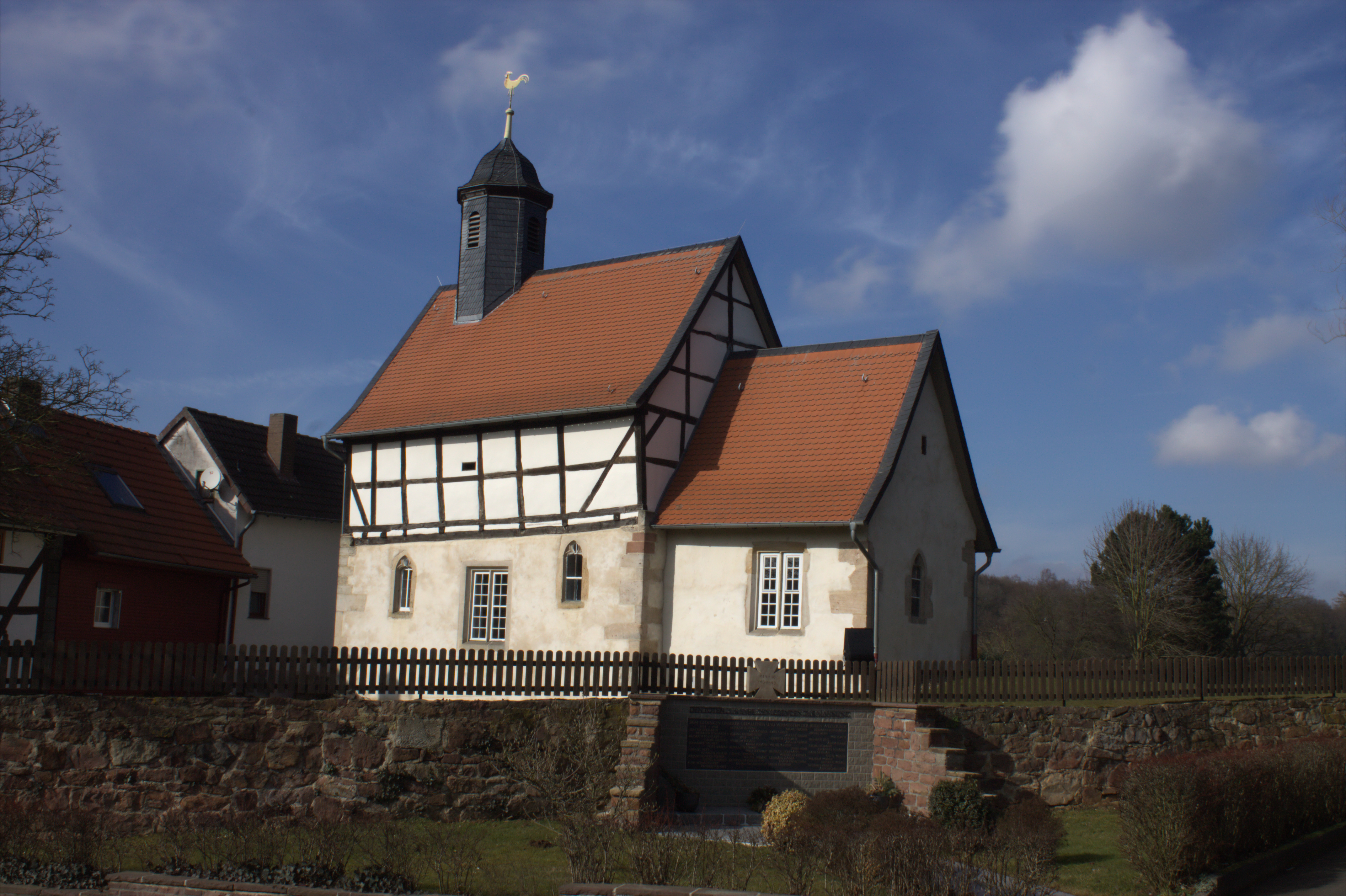 The chapel in Altenbrunslar